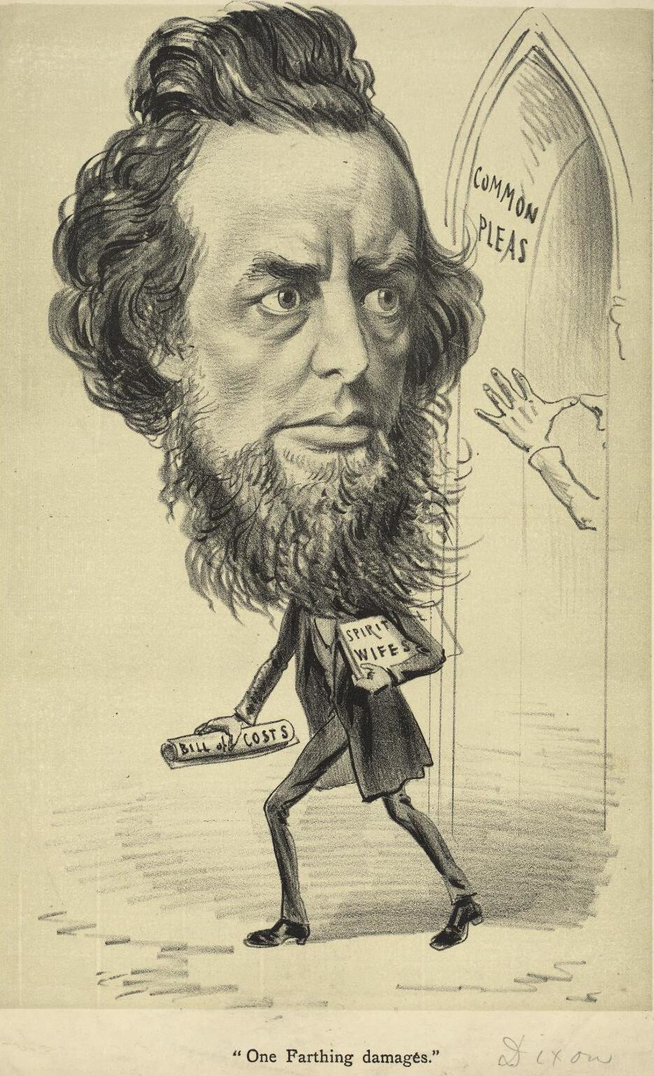 A portrait from the Welsh Portrait Collection at the National Library of Wales. Depicted person: William Hepworth Dixon – English historian and traveller